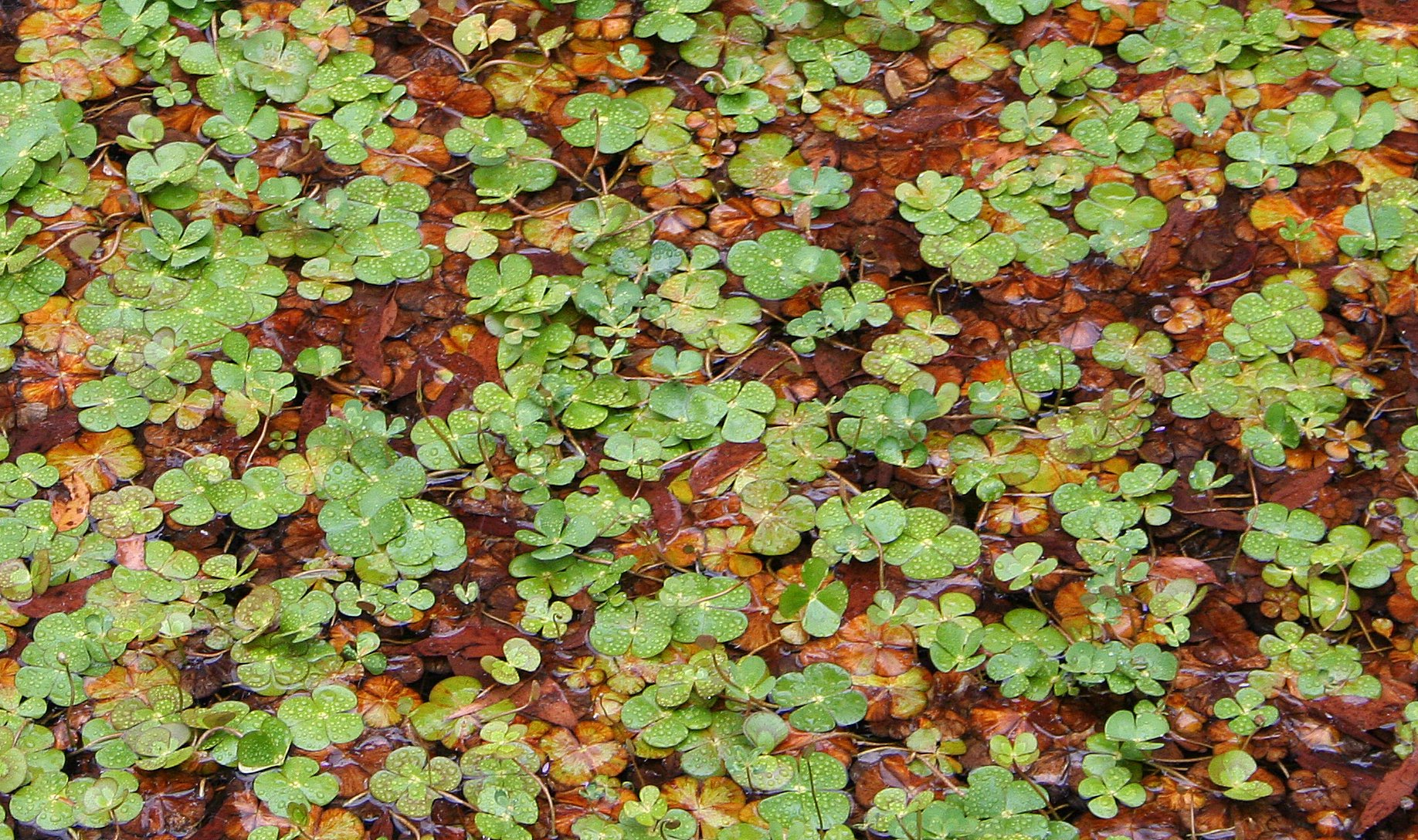 Common nardoo, Marsilea dummondii, on a pond in the Dandenongs